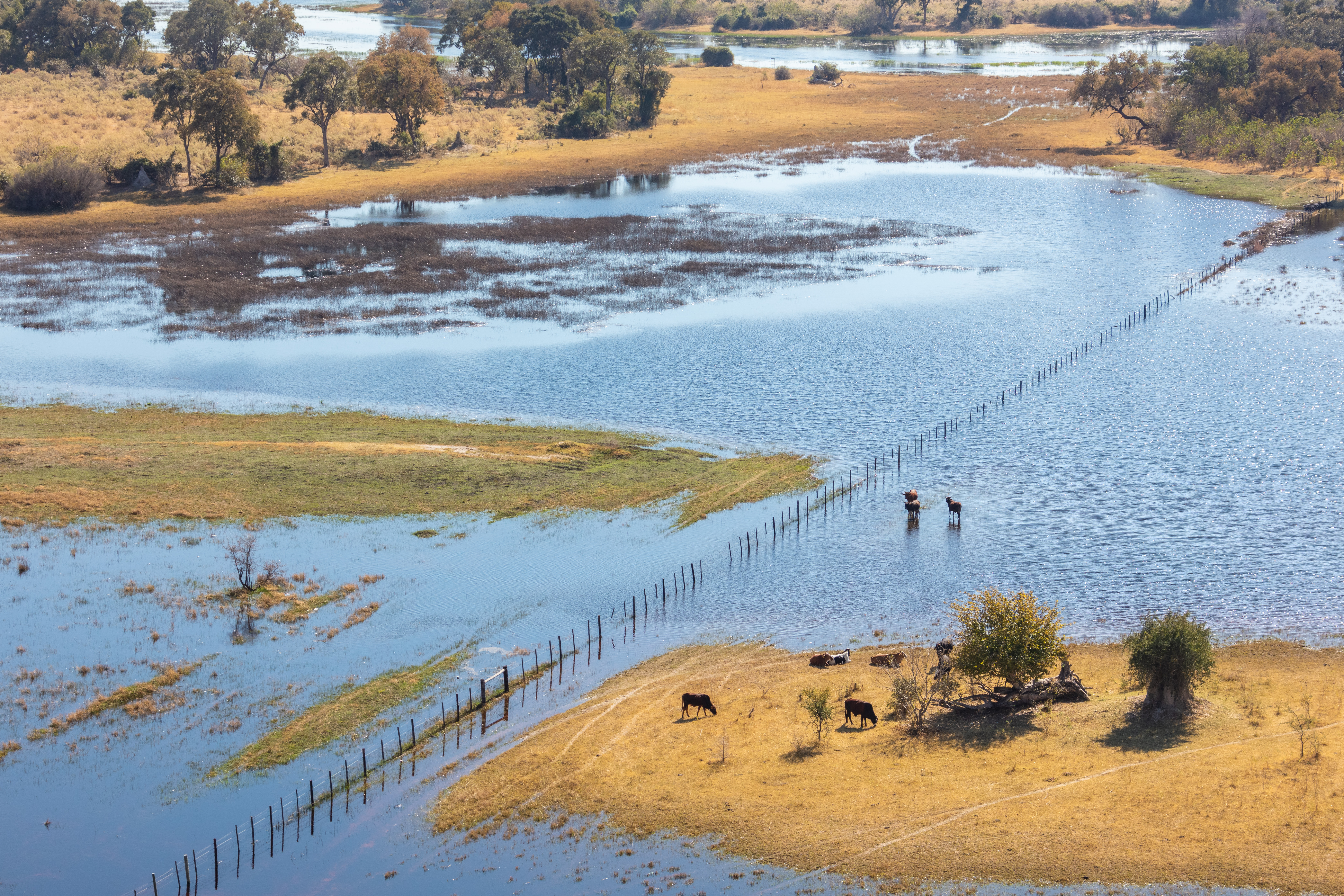 Aerial view of Okavango Delta, Botswana